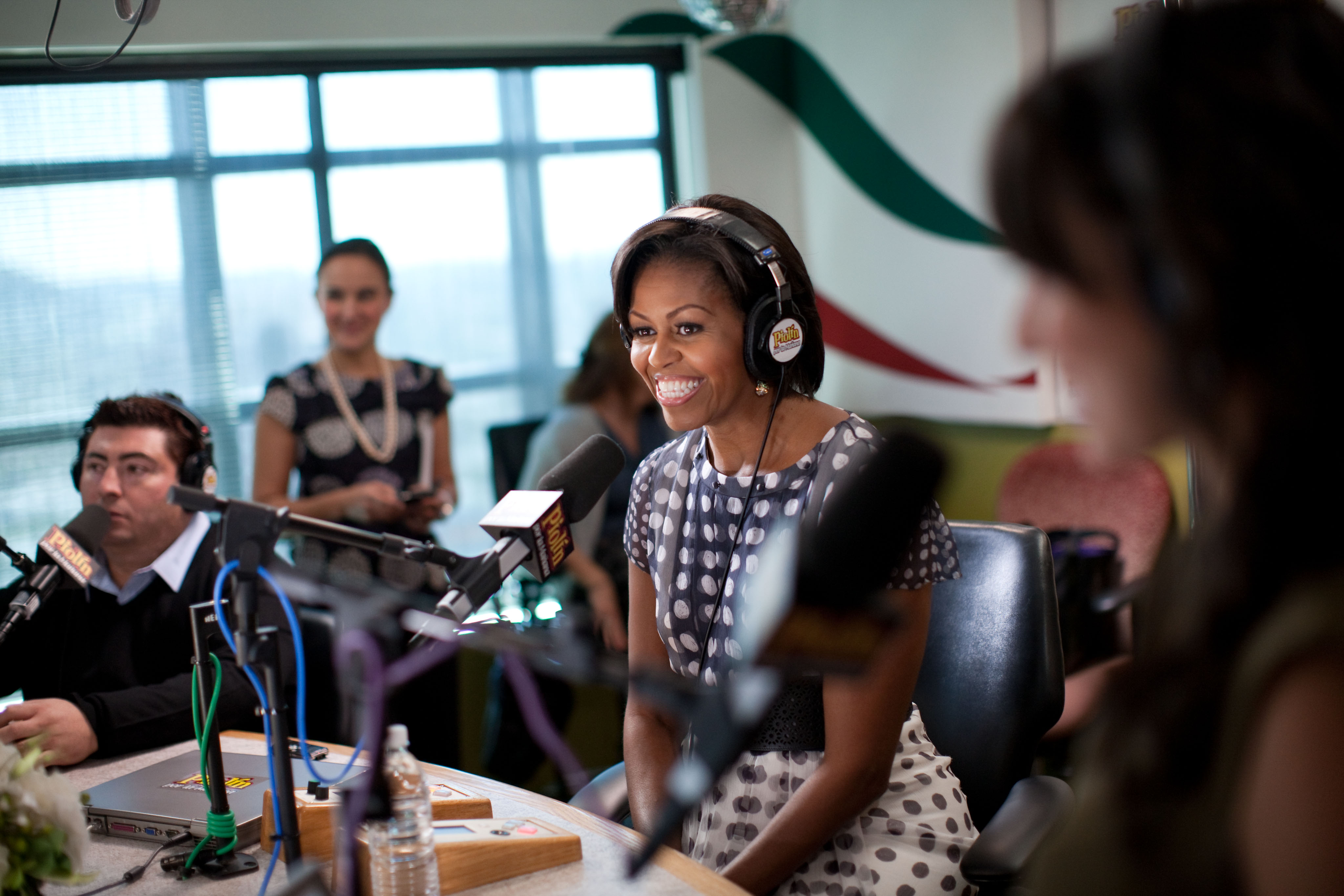 First Lady Michelle Obama does an interview with radio show host Eddie "Piolin" Sotelo at the Univision Radio building in Glendale, Calif., Oct. 27, 2010. Piolin has one of the top radio shows in the country. (Official White House Photo by Lawrence Jackson) This official White House photograph is in the public domain from a copyright perspective, so while restrictions such as personality or privacy rights may apply, in general, manipulations are allowed.